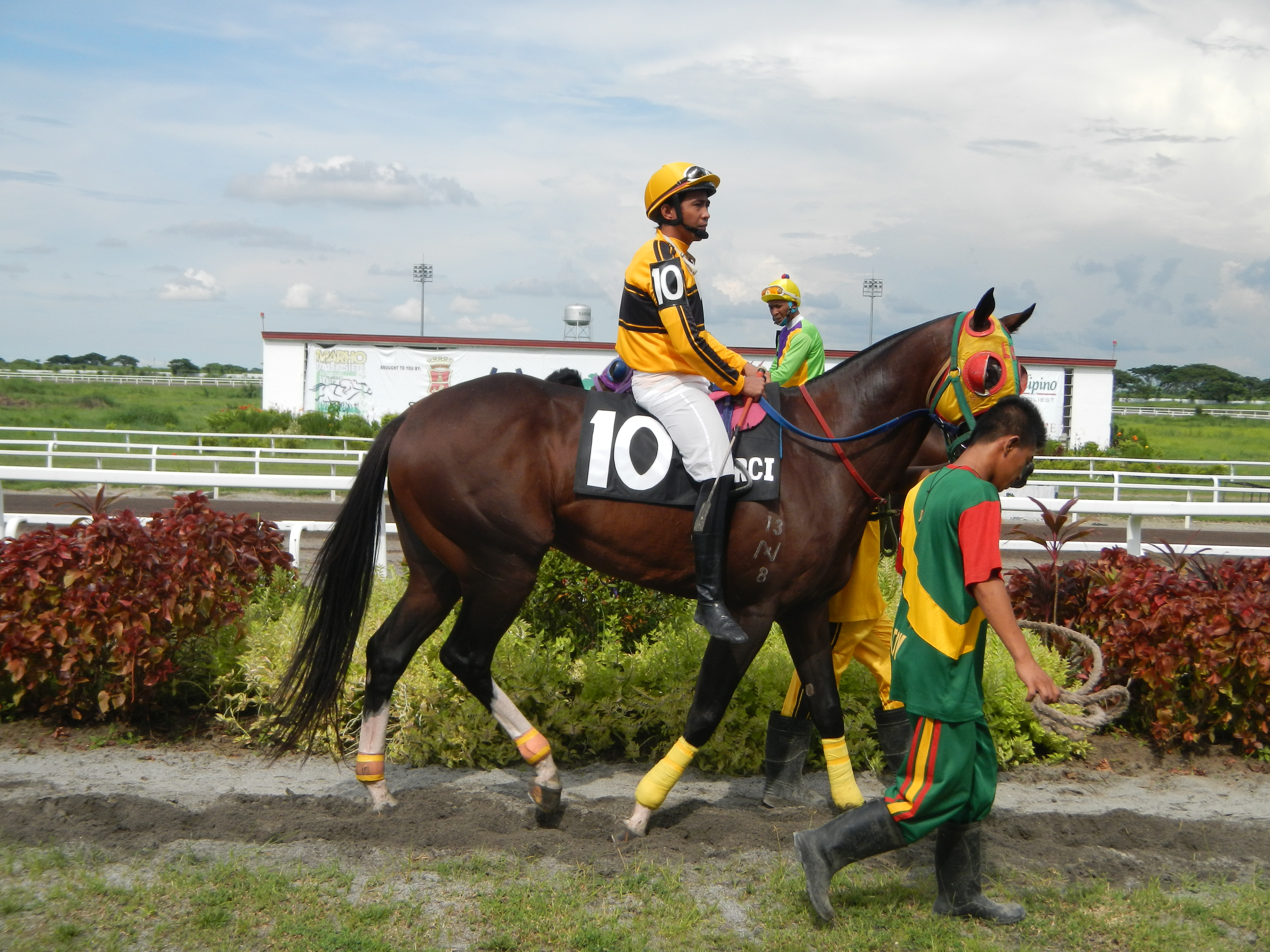 Saddle & Clubs Leisure Park (Santa Ana Park) Race Track at Sabang, Naic, Cavite[1][2] 1937Philippine Racing Club, Inc. Santa Ana Turf Club, known as Philippine Racing Club, Inc. (PRC) a publicly-listed company engaged in constructing, operating and maintaining one racetrack in Makati o. PRC has 208 quality Off-Track Betting Stations (OTB), equipped with computerized facilities. Sta. Ana Park A.P. Reyes Ave., Makati City [3] [4] It is located in the tri-boundary area of the municipalities of Naic, Tanza and Trece Martirez in Cavite. Sta. Lucia Realty & Development Inc. and its partners namely: Philippine Racing Club Inc. 1,600-meter sand track is 25 meter wide, has inside turning radius of 128 meters, homestretch between turns in 400 meters long, and the distance from the finish line is 100 meters with approximately 1,000 stable with tack and feed rooms.